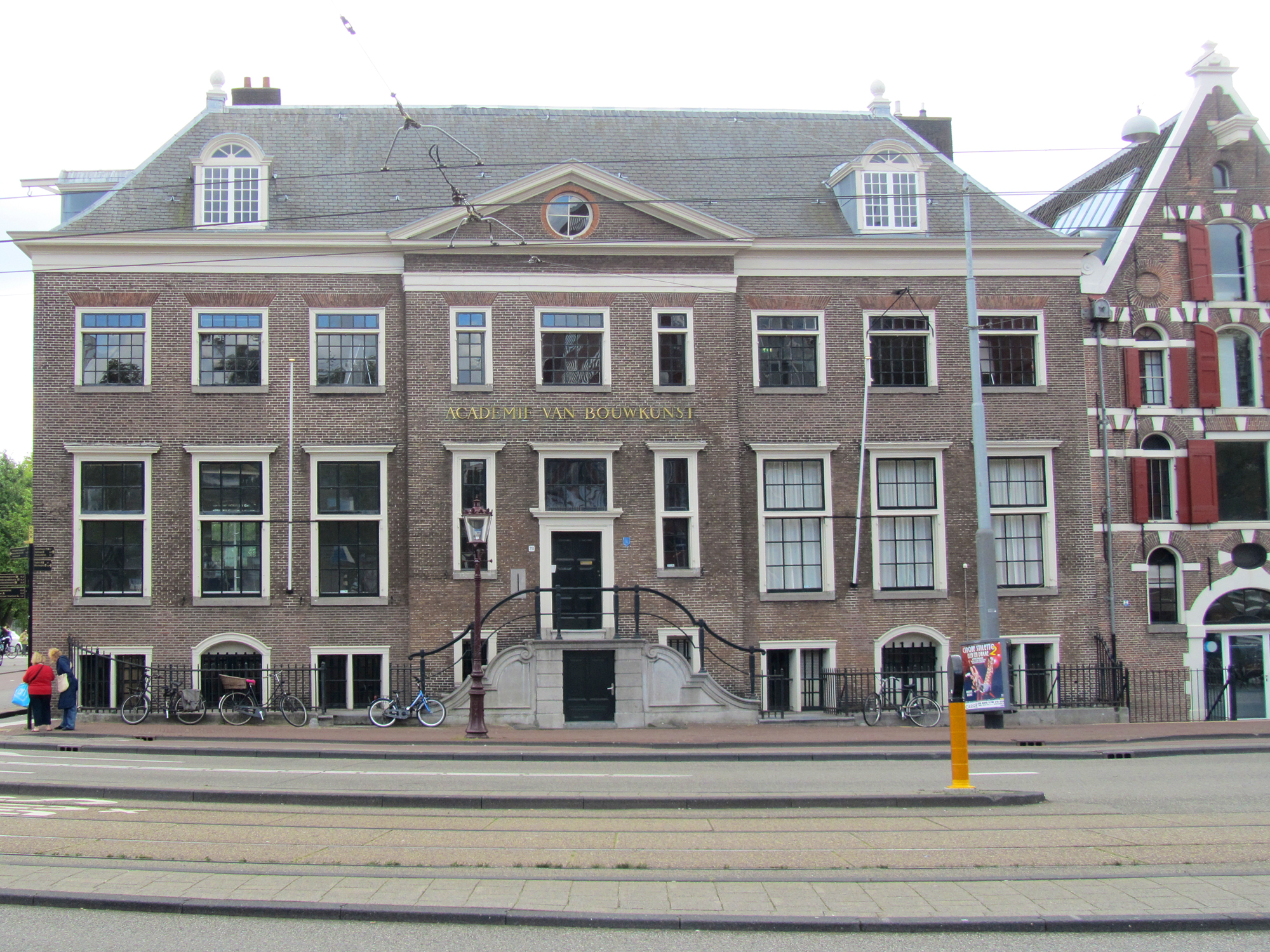 The Oudezijds Huiszittenhuis, a 1655 building in Amsterdam